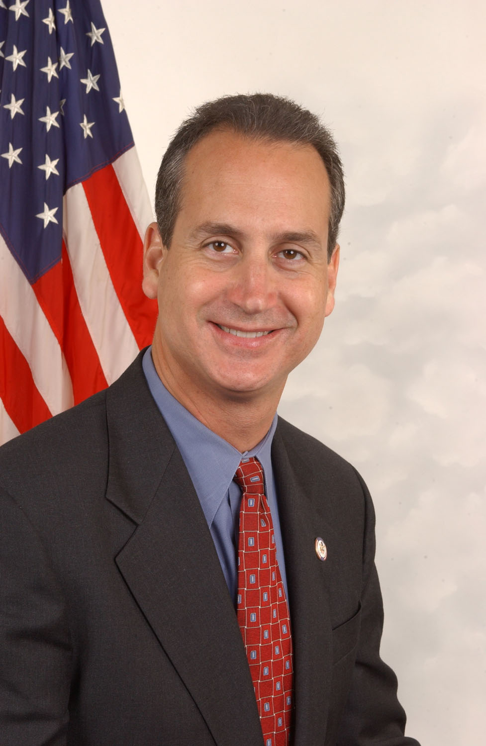 Mario Diaz-Balart, U.S. Congressman.